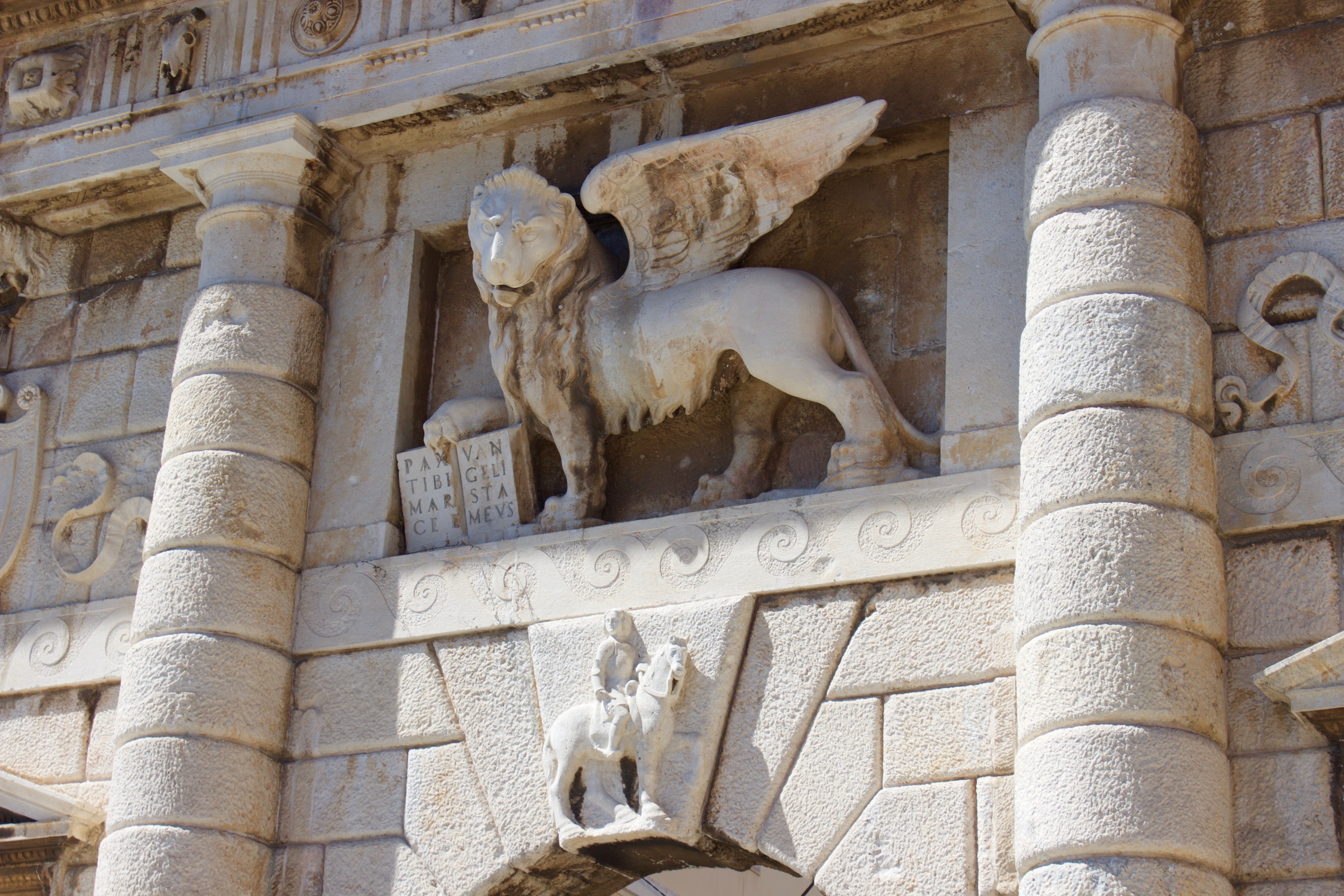 lion zadar